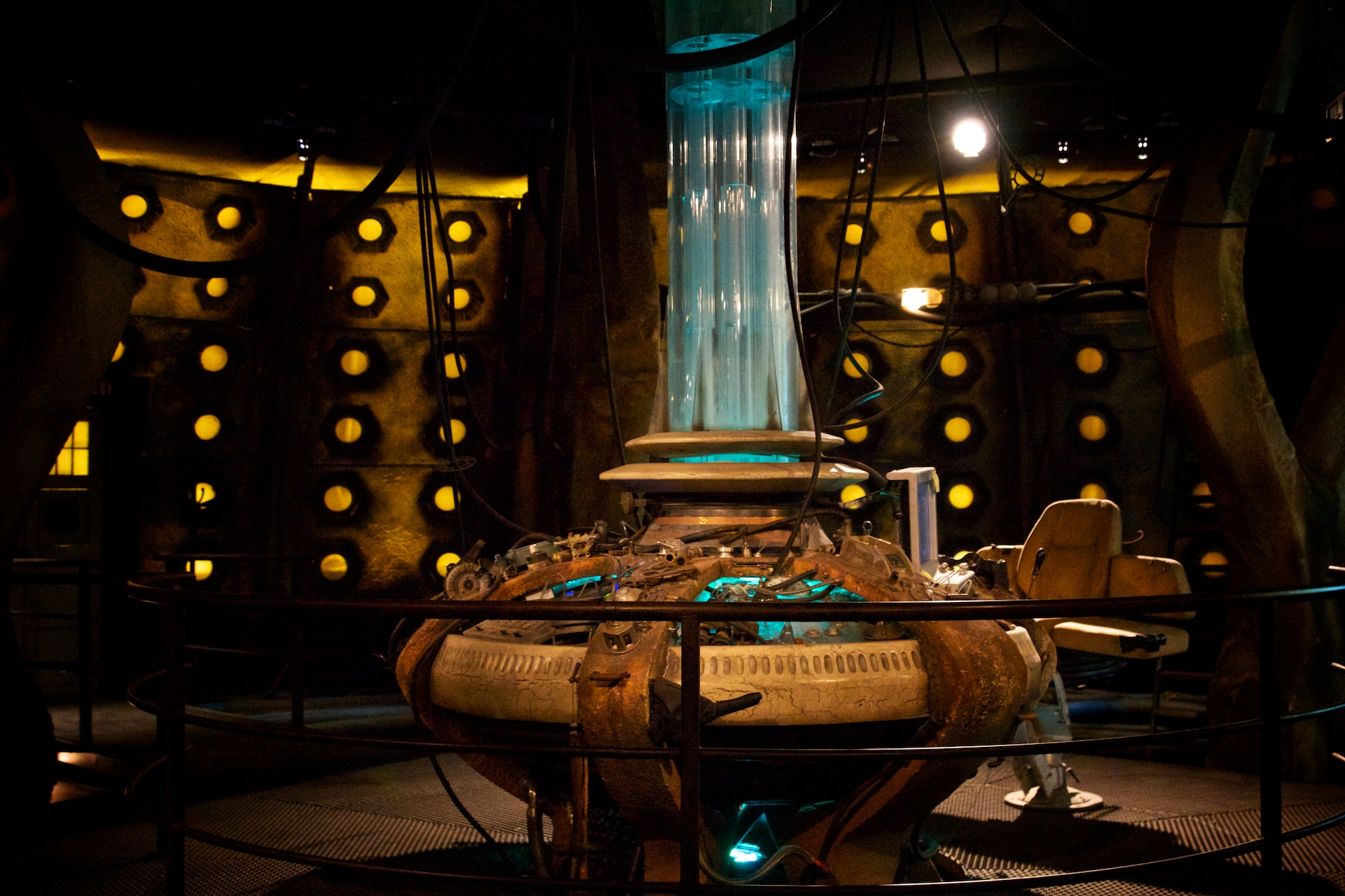 Tardis Doctor Who Experience